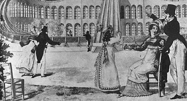 "Promenades Aeriennes", an 1817 illustration from the French periodical Le Bon Genre showing an early version of the roller coaster in the background.